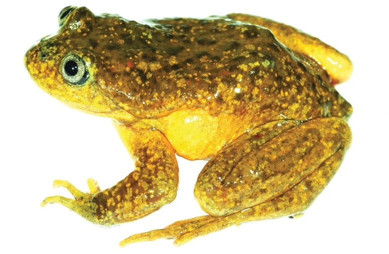 Live holotype of Telmatobius ventriflavum sp. n., male CORBIDI 14685 (SVL 48.5 mm) in dorsolateral view.